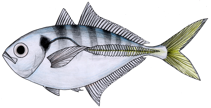 Hand drawn and coloured picture of Alepes kleinii, the banded or razorbelly scad. Based on Carpenter et al (eds) 2002 and colour photos at fishbase